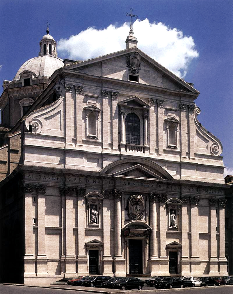 Il Gesù, motherchurch of the Society of Jesus, Rome.